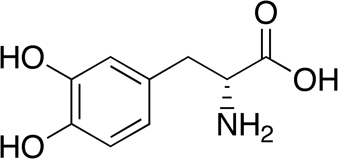 chemical structure of D-DOPA (3,4-dihydroxyphenylalanine)